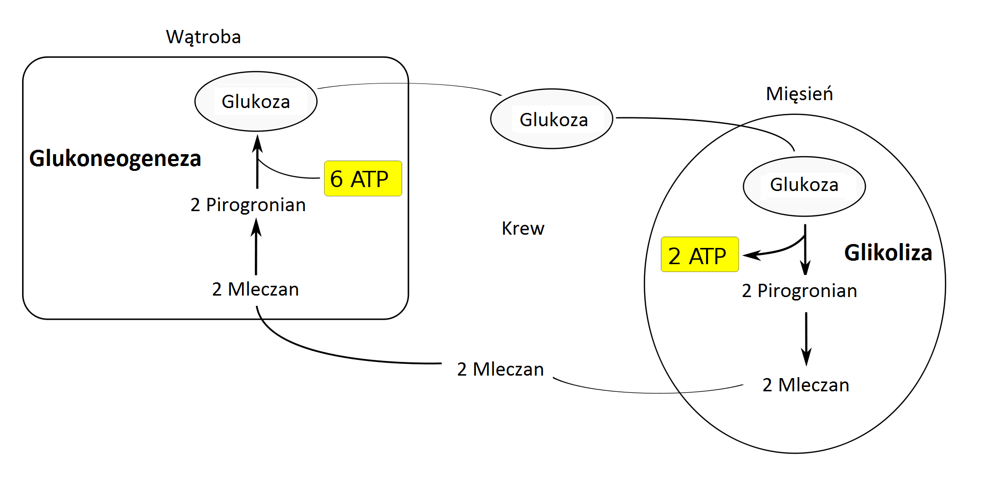 Polish translation of Cori Cycle - SVG version.